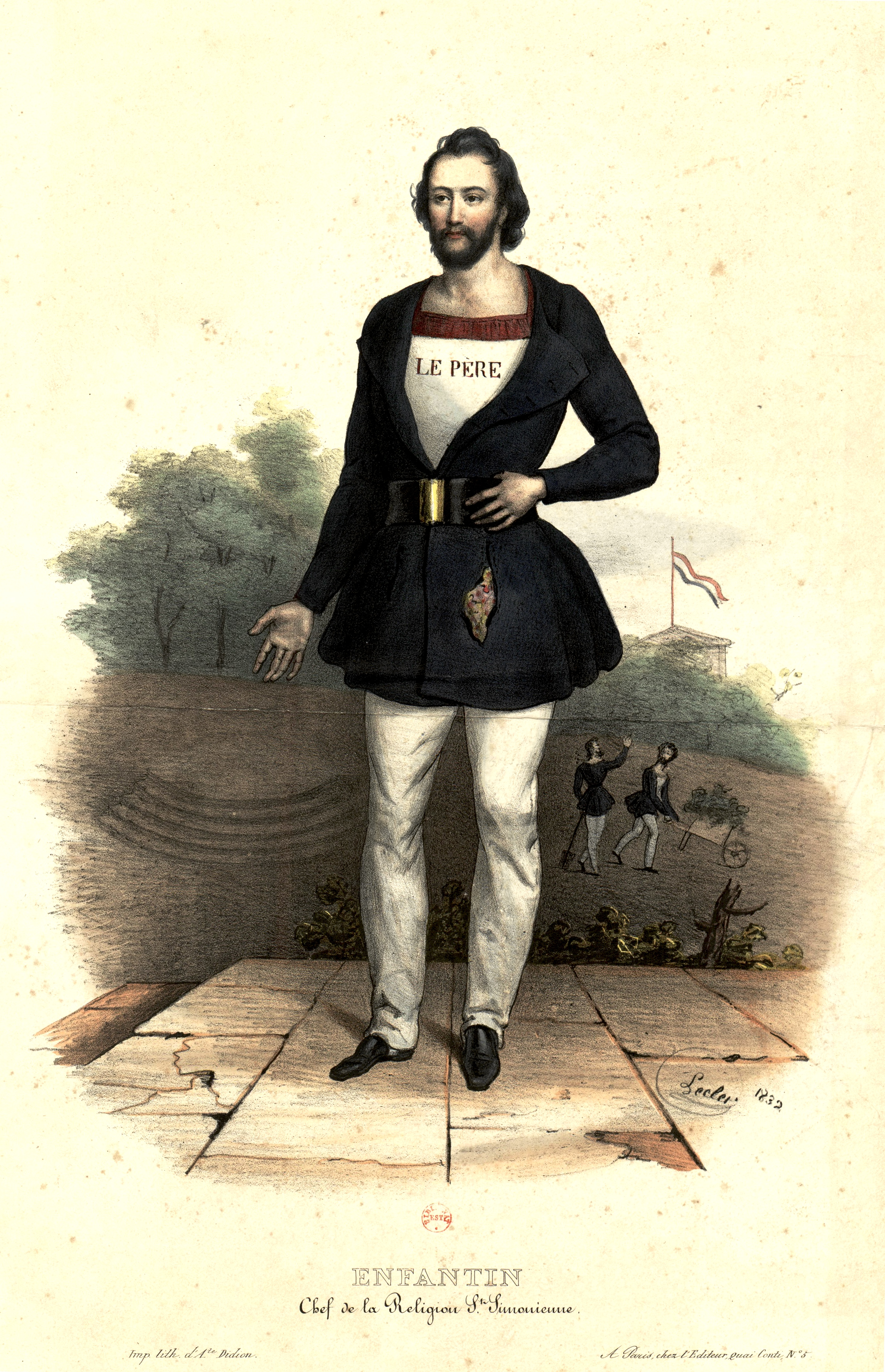 Prosper Enfantin (1796–1864), French social reformer, one of the founders of Saint-Simonianism, in Saint-Simonian uniform, as “Le Père”. A Paris, chez l'Editeur, Quai Conti, N° 5